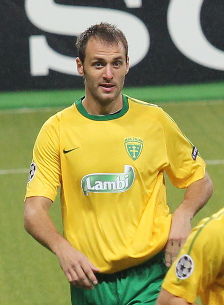 Jozef Piaček